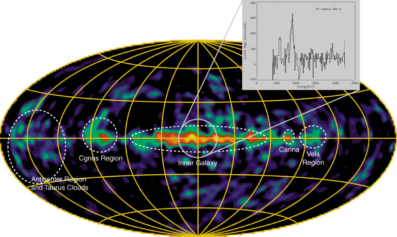 A map of the galactic 26Al decay gamma radiation signature at 1.8 MeV. 26Al is primarily synthetized in supernovae, so this map indicates where in the Milky Way most supernovae exploded during the last million year.